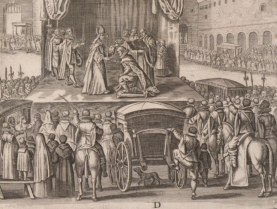 4 scenes representing the murder of Vasconcellos (a minister of Philip III), accession and coronation of John IV of Braganza. Bust portrait of John in centre: 3/4 right, in cap and ruff. German inscription.